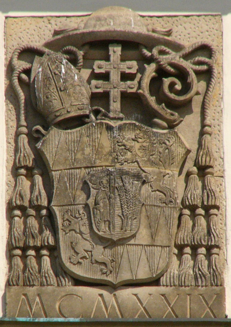 Coat of arms of archbishop of Olomouc Leopold Prečan at Lower square in Olomouc (Czech Republic). MCMXXIX = 1929